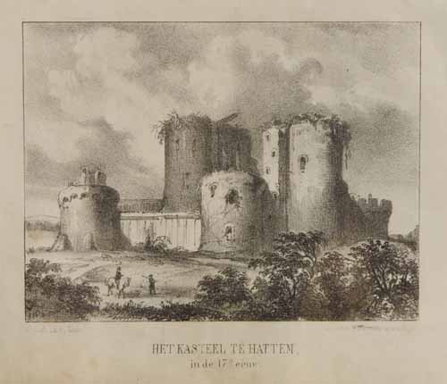 "Dikke Tinne" (Fat walls) or Castle Hattem, at Hattem (Netherlands)